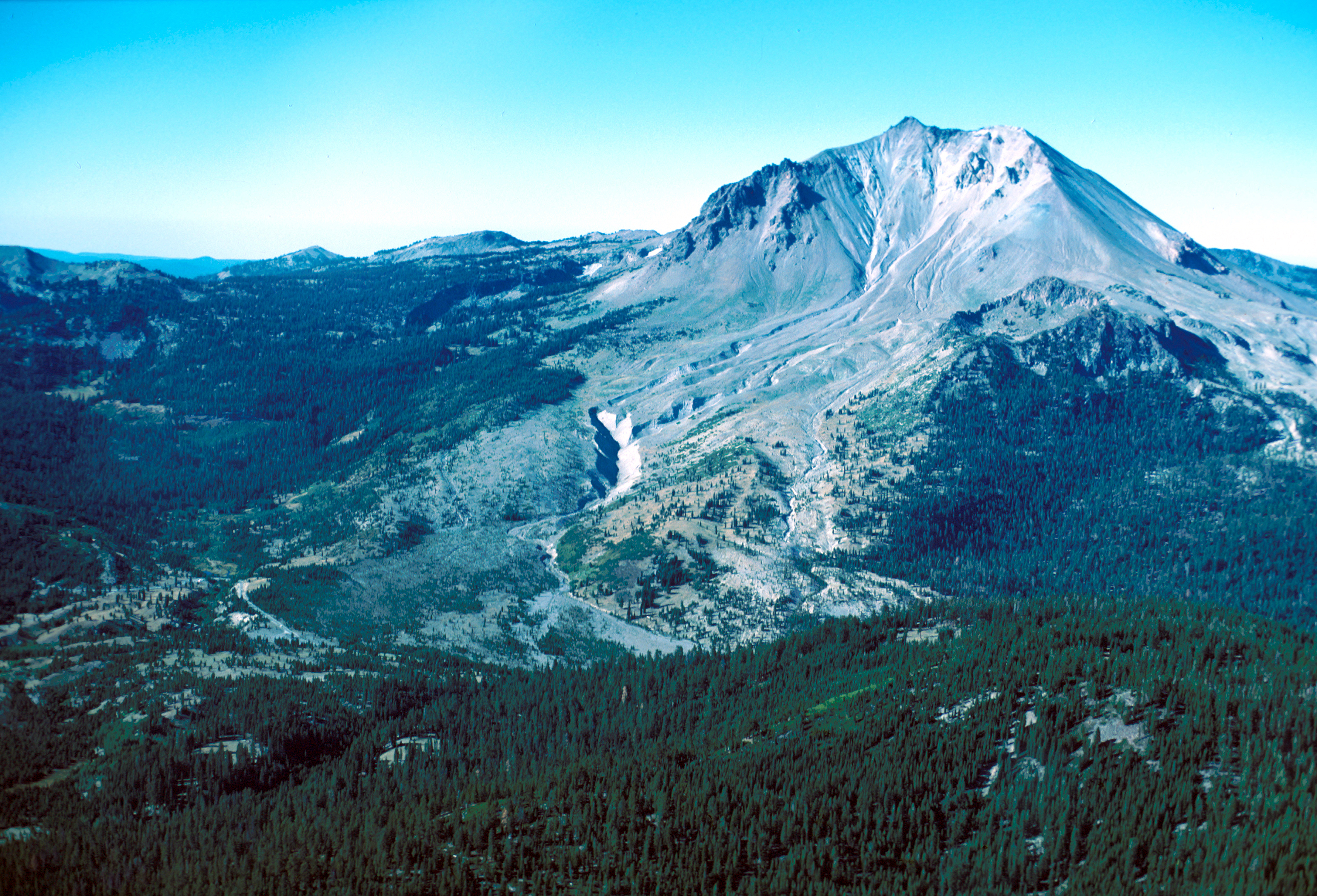 Lassen Volcanic National Park, California. Northeast side of Lassen Peak, showing the area devastated by mudflows and a lateral blast in 1915.